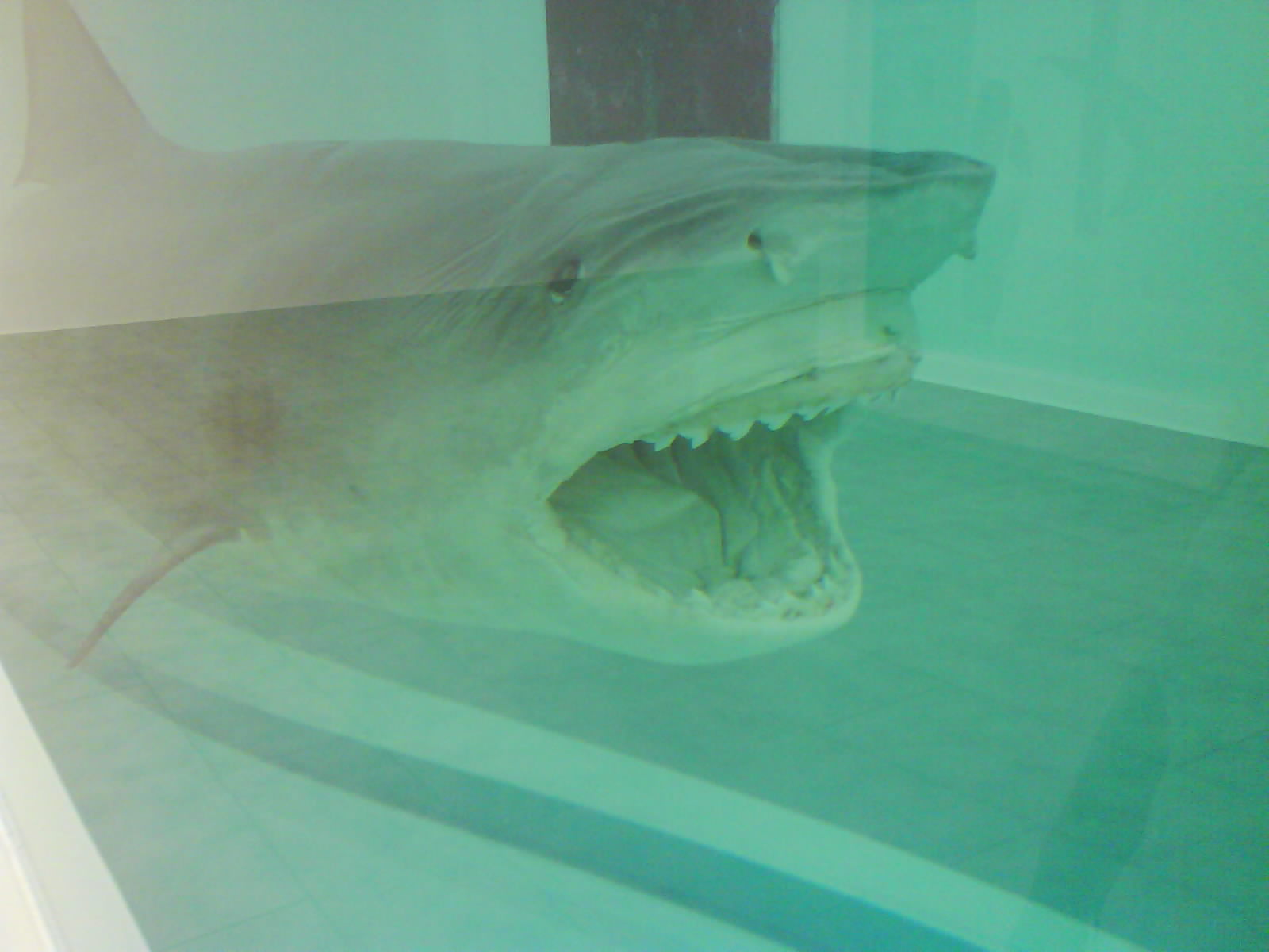 Damien Hirst, Death Denied, 2008, glass, steel, shark, acrylic and formadehyde solution, PinchukArtCentre, Kiev, Ukraine.